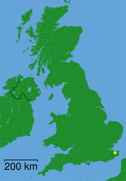 Canterbury in Great Britain, marked with a dot